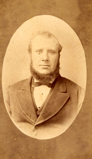 Portrait of John Scholey.